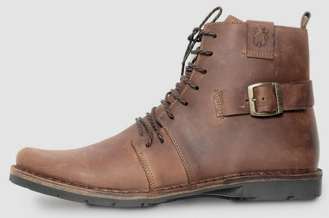 male shoe